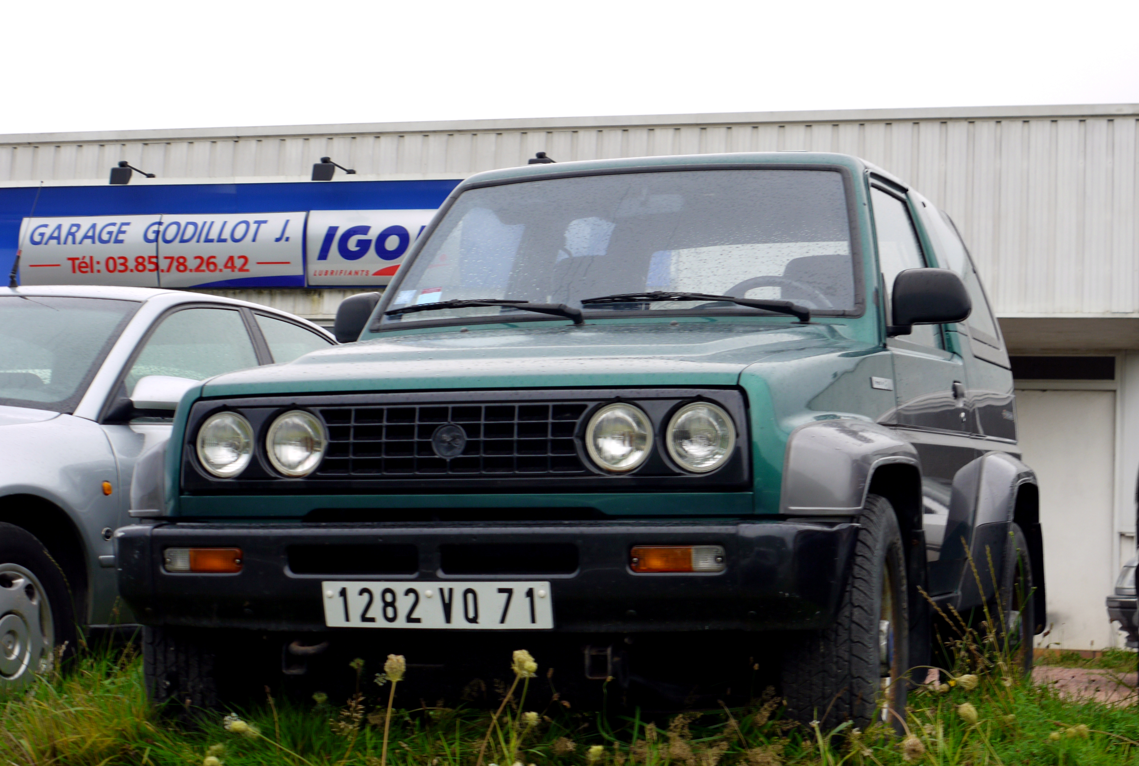 1989-1992 Bertone Freeclimber 4x4 "Blue Lagoon" - with a BMW 2,443 cc turbodiesel engine. In France, only the diesel was available (imported by Chardonnet). The "Blue Lagoon" limited series was named after a perfume by Nicolas de Barry.